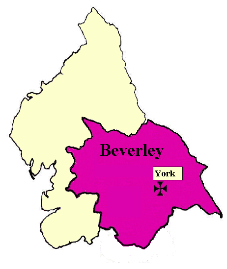 The former Roman Catholic Diocese of Beverley